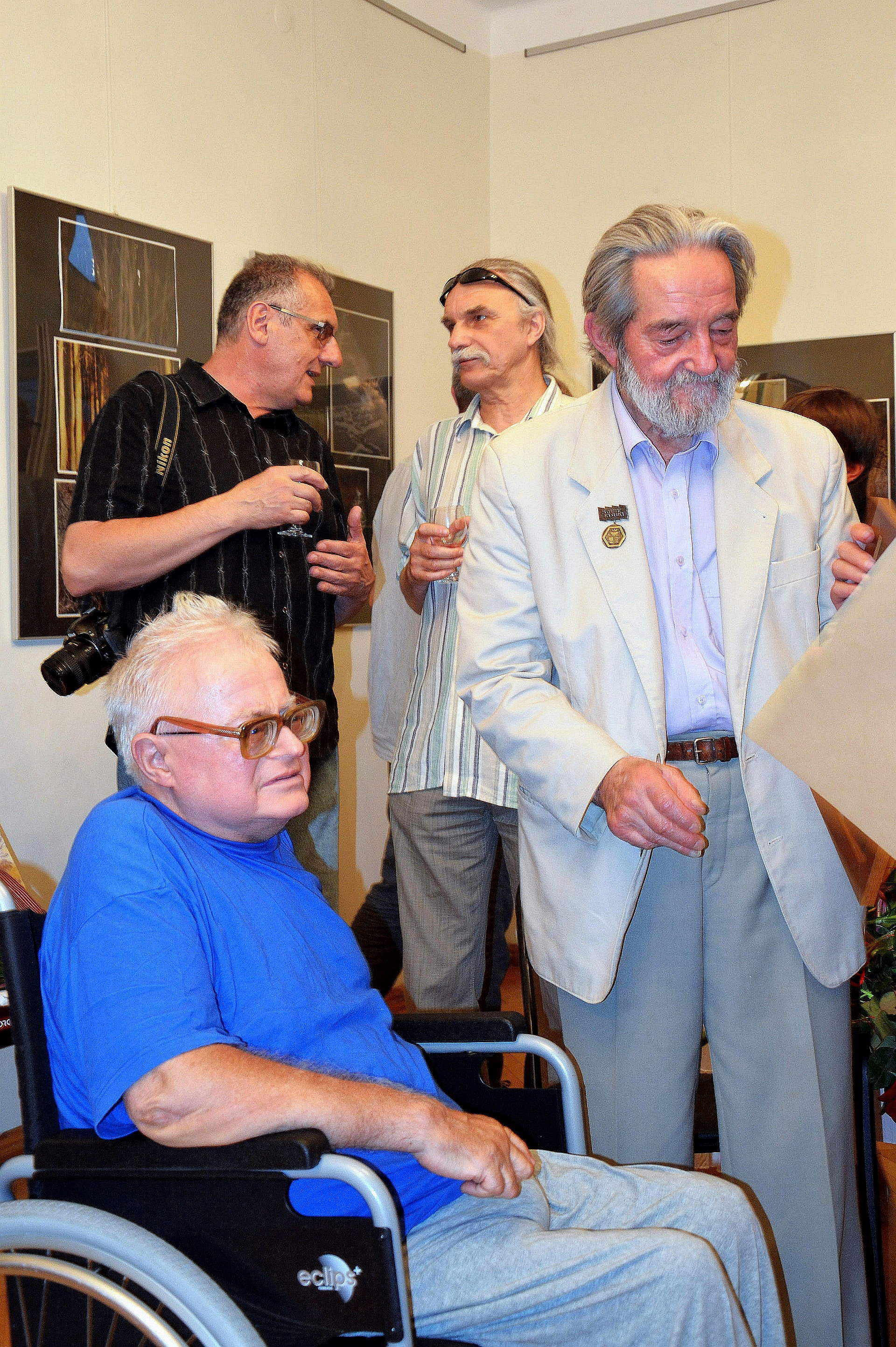 80th birthday of Władysław Szulc